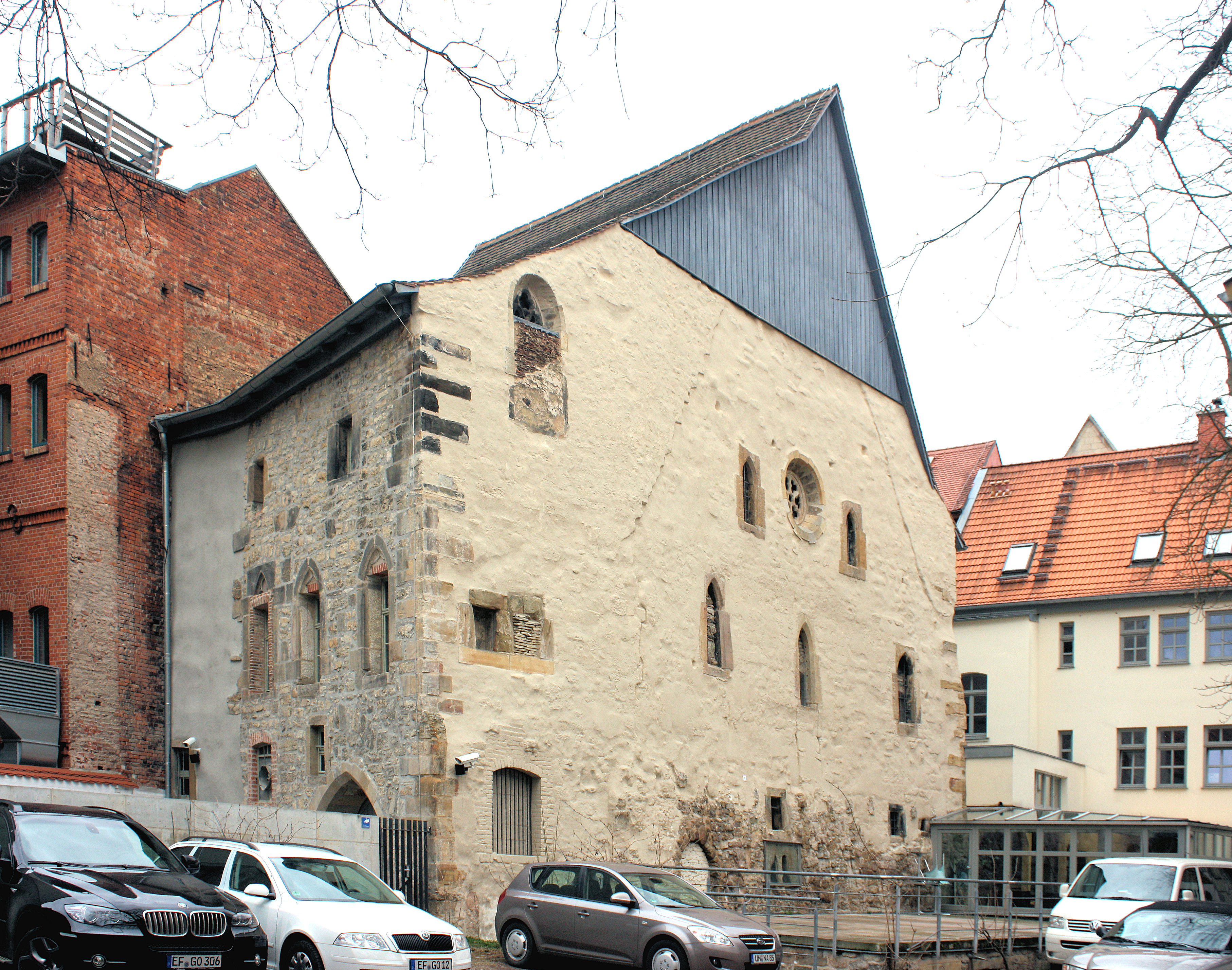 Erfurt, the Old Synagogue This is a photograph of an architectural monument. 8